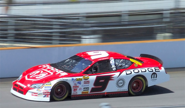 Kasey Kahne drives the No. 9 Dodge Charger in 2007